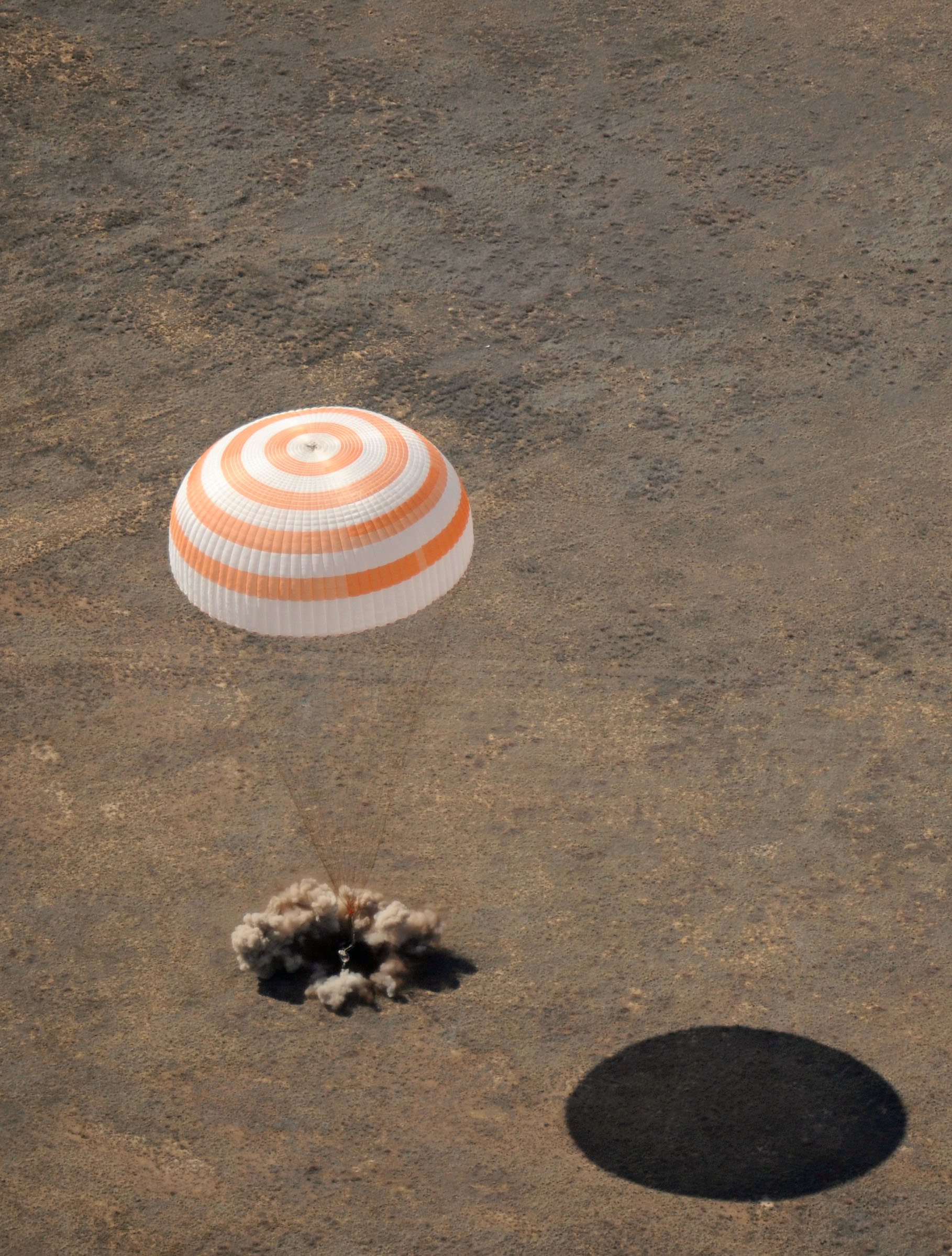 The Soyuz TMA-13 spacecraft, carrying NASA astronaut Michael Fincke, Expedition 18 commander; cosmonaut Yury Lonchakov, flight engineer and Soyuz commander; and U.S. spaceflight participant Charles Simonyi, lands on April 8, 2009, near Zhezkazgan, Kazakhstan. Fincke and Lonchakov return after spending six months on the International Space Station, and Simonyi is returning from his launch with the Expedition 19 crewmembers twelve days earlier.